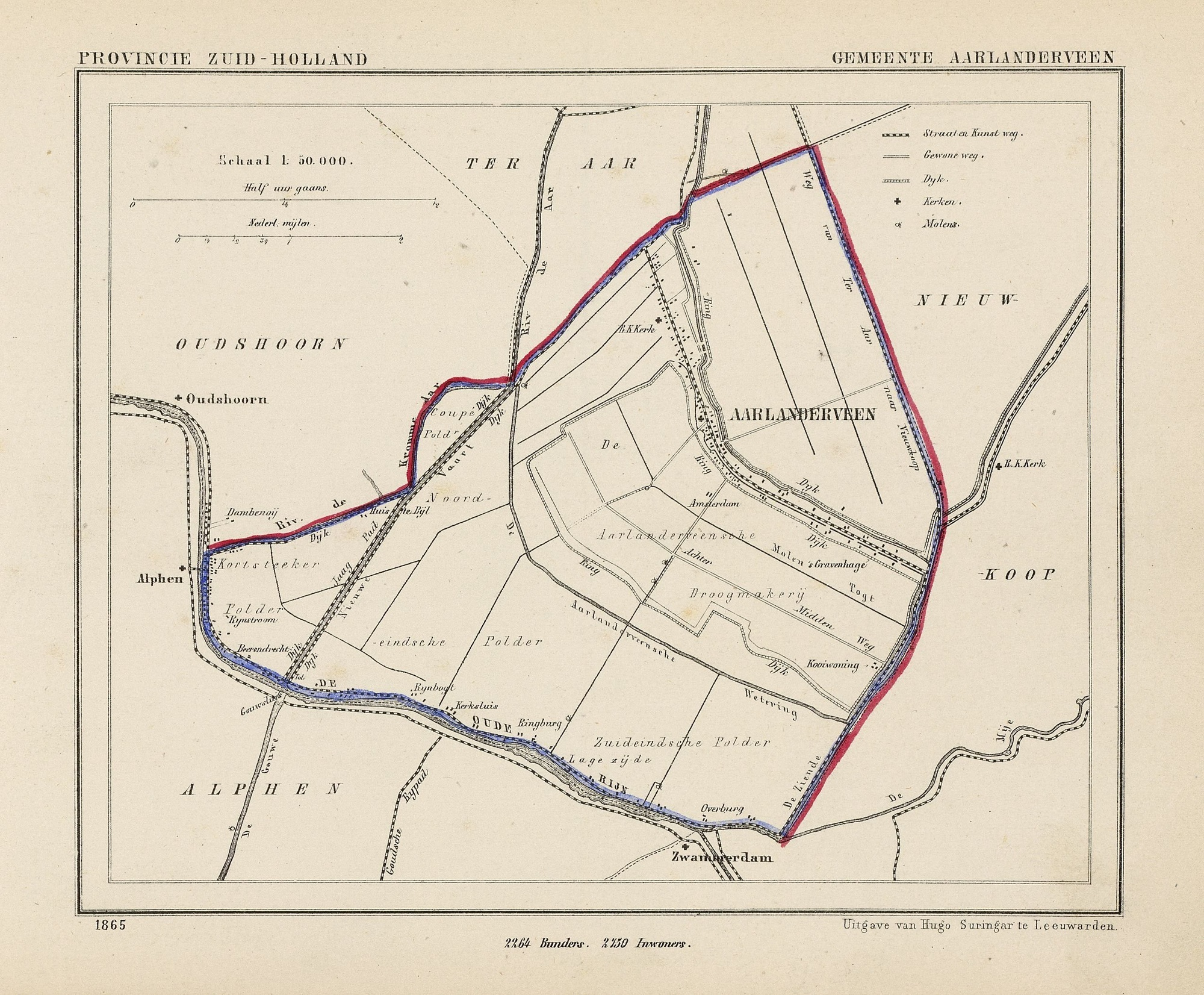 Map from 1865 of the former municipality of Aarlanderveen (prov. South Holland, Netherlands). On January 1st, 1918, Aarlanderveen was annexed by the municipality of Alphen aan den Rijn, to which it still belongs.